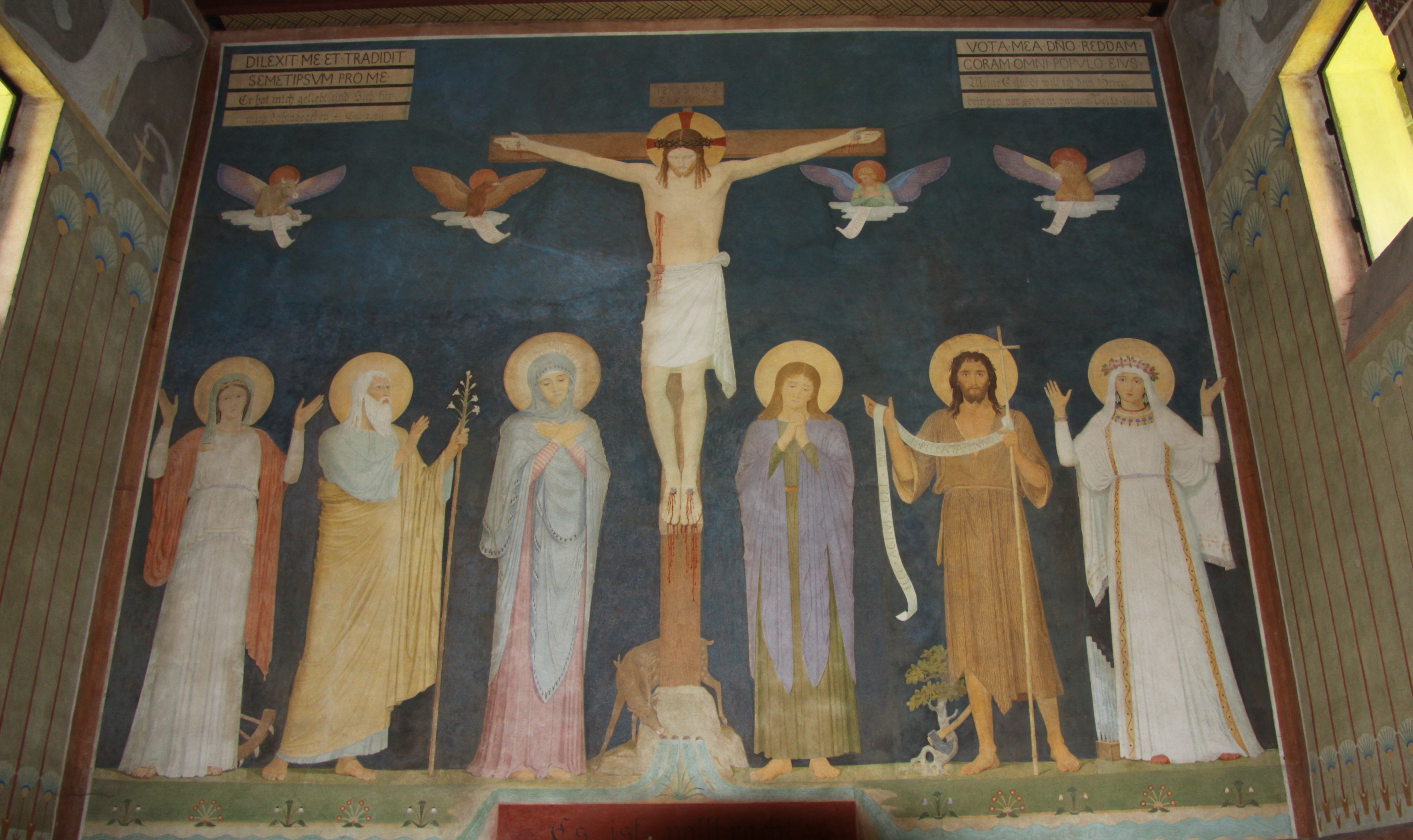 St.-Maurus-Kapelle, Beuron (Donau valley), build 1868–1870, Architect: Desiderius Lenz. Wall picture: crucifixion group. Juli 2016